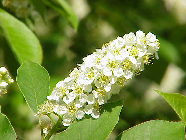 Species: Prunus virginiana Family: Rosaceae Image No. 1